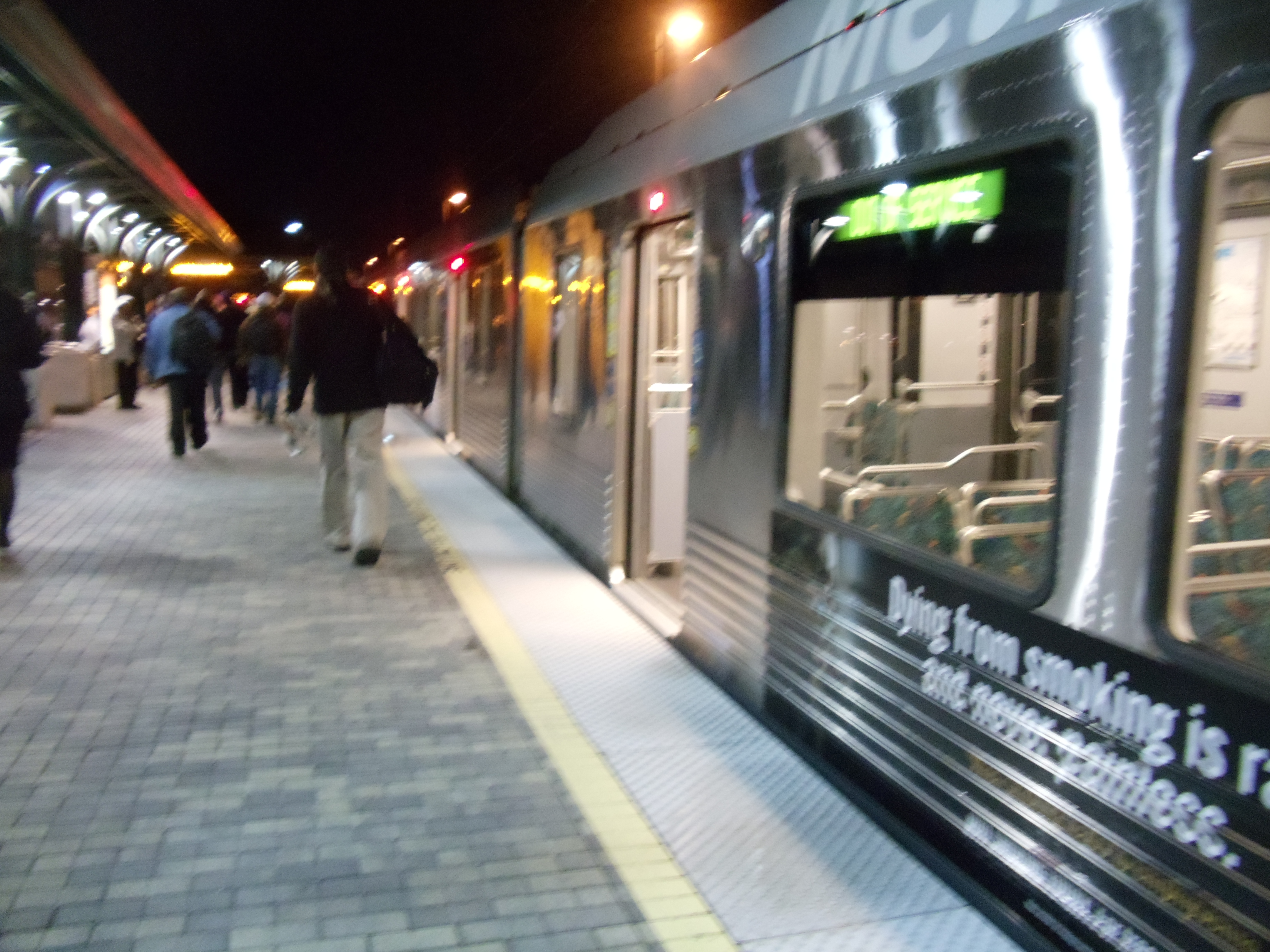 Metro Gold Line train out of service at Union Station.